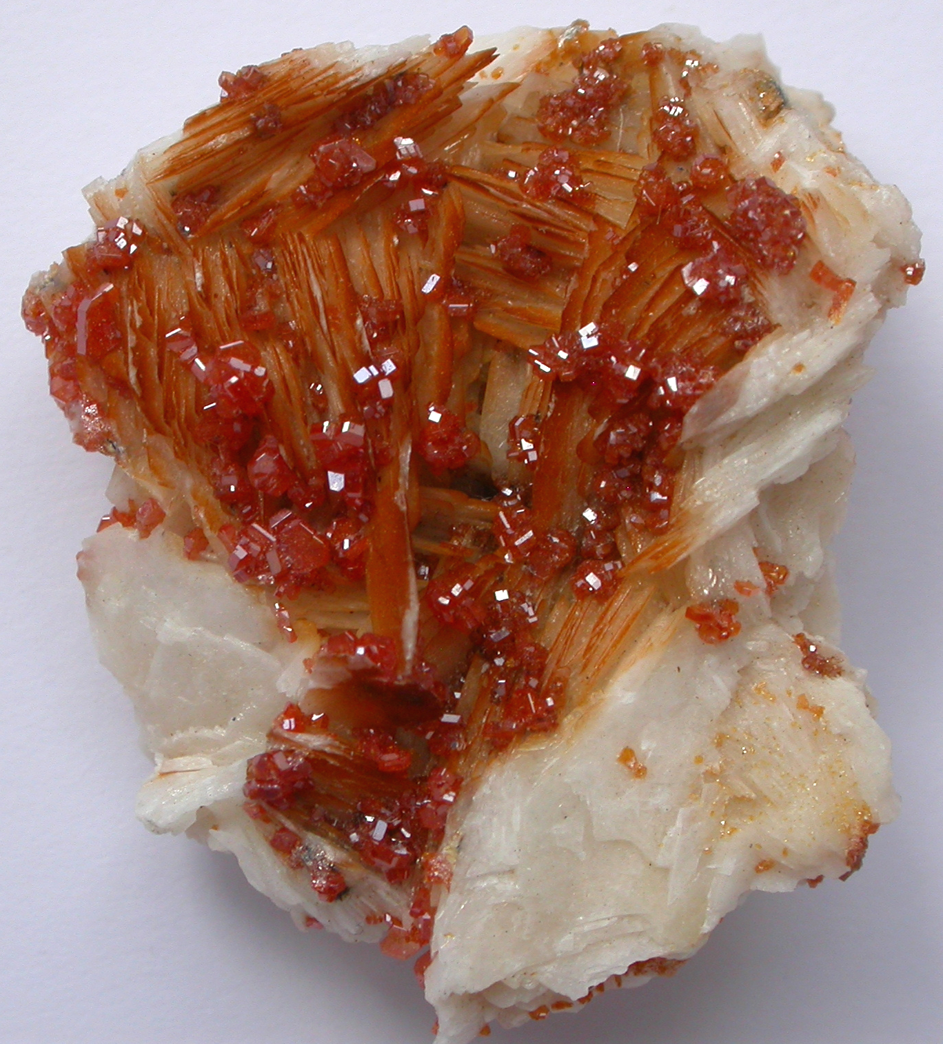 Vanadinite from Marocco